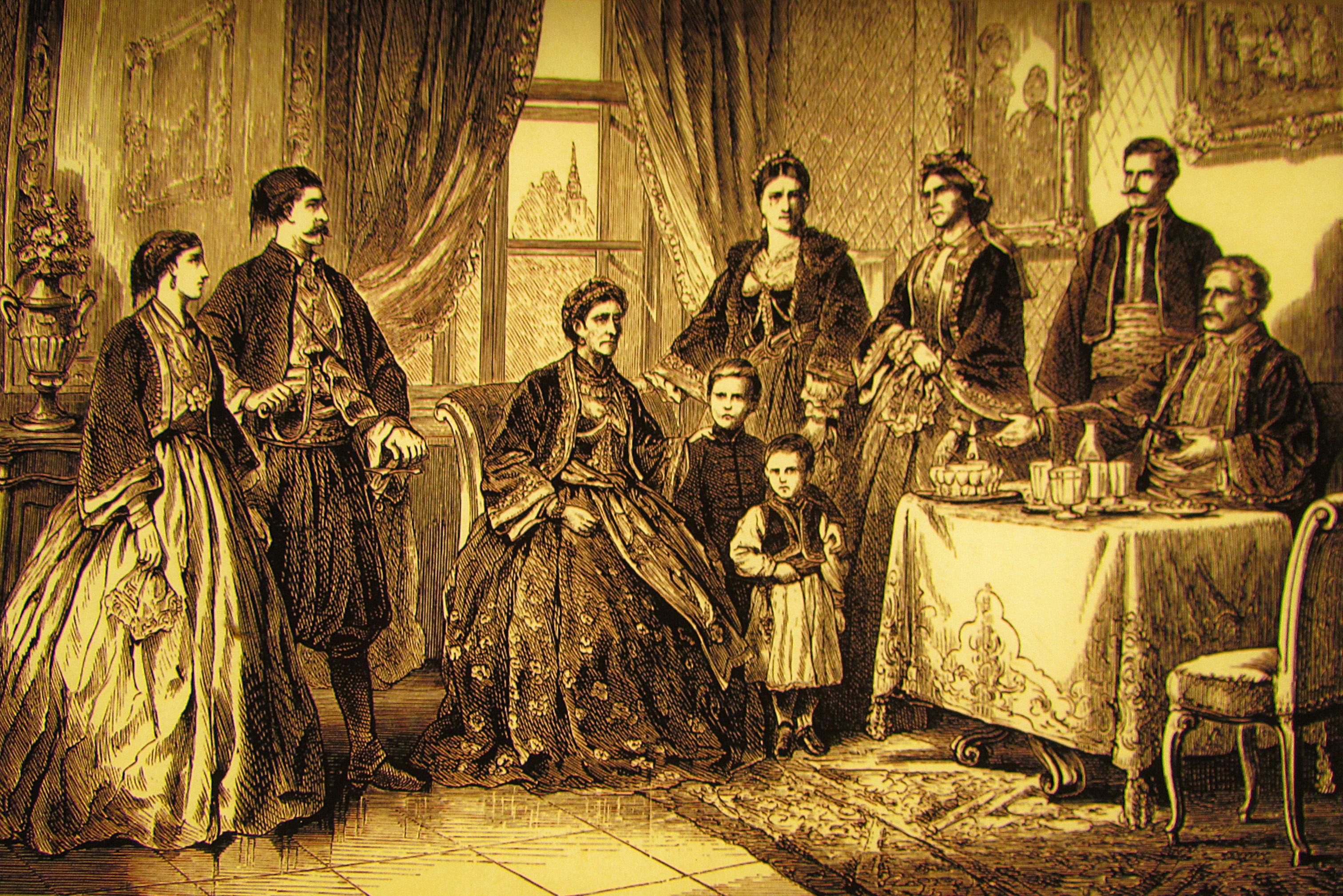 Serbian Slava in 19th c. in Nebojša Tower, Belgrade